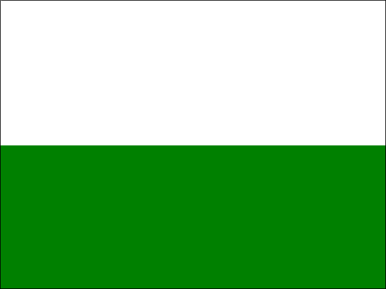 The flag of Estepona (Málaga) city